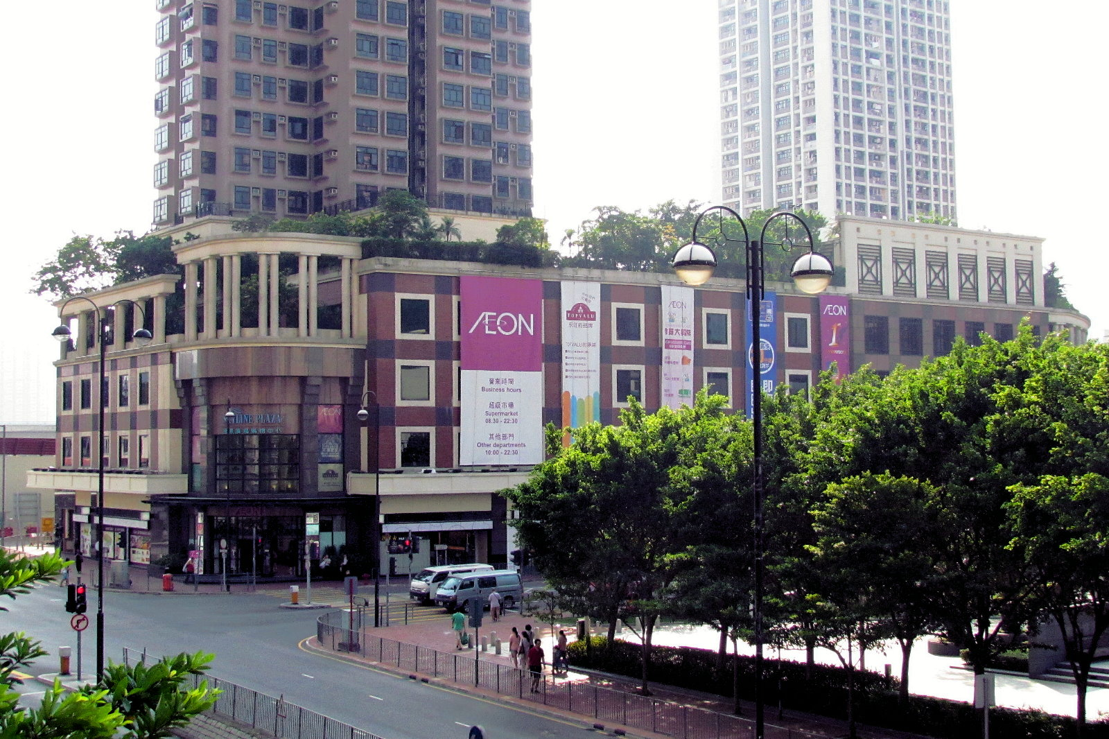 Appearance of Skyline Plaza shopping mall, Hong Kong